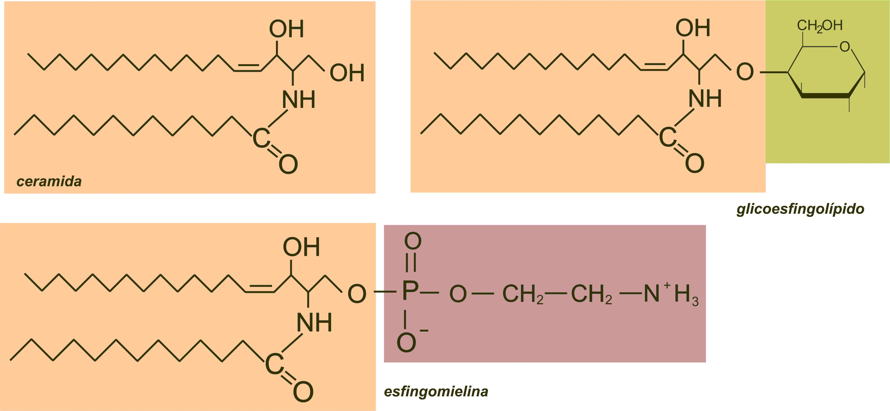 3 types of sphingolipids